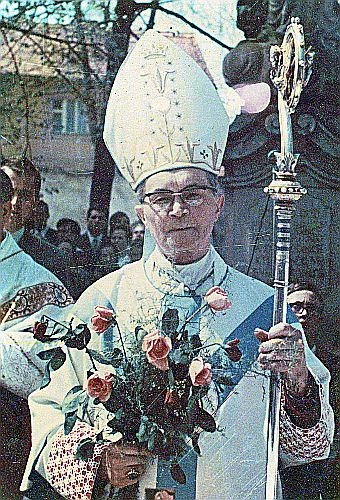 Josef Hlouch the bishop of České Budějovice (CZ) Česky: Českobudějovický biskup Josef Hlouch